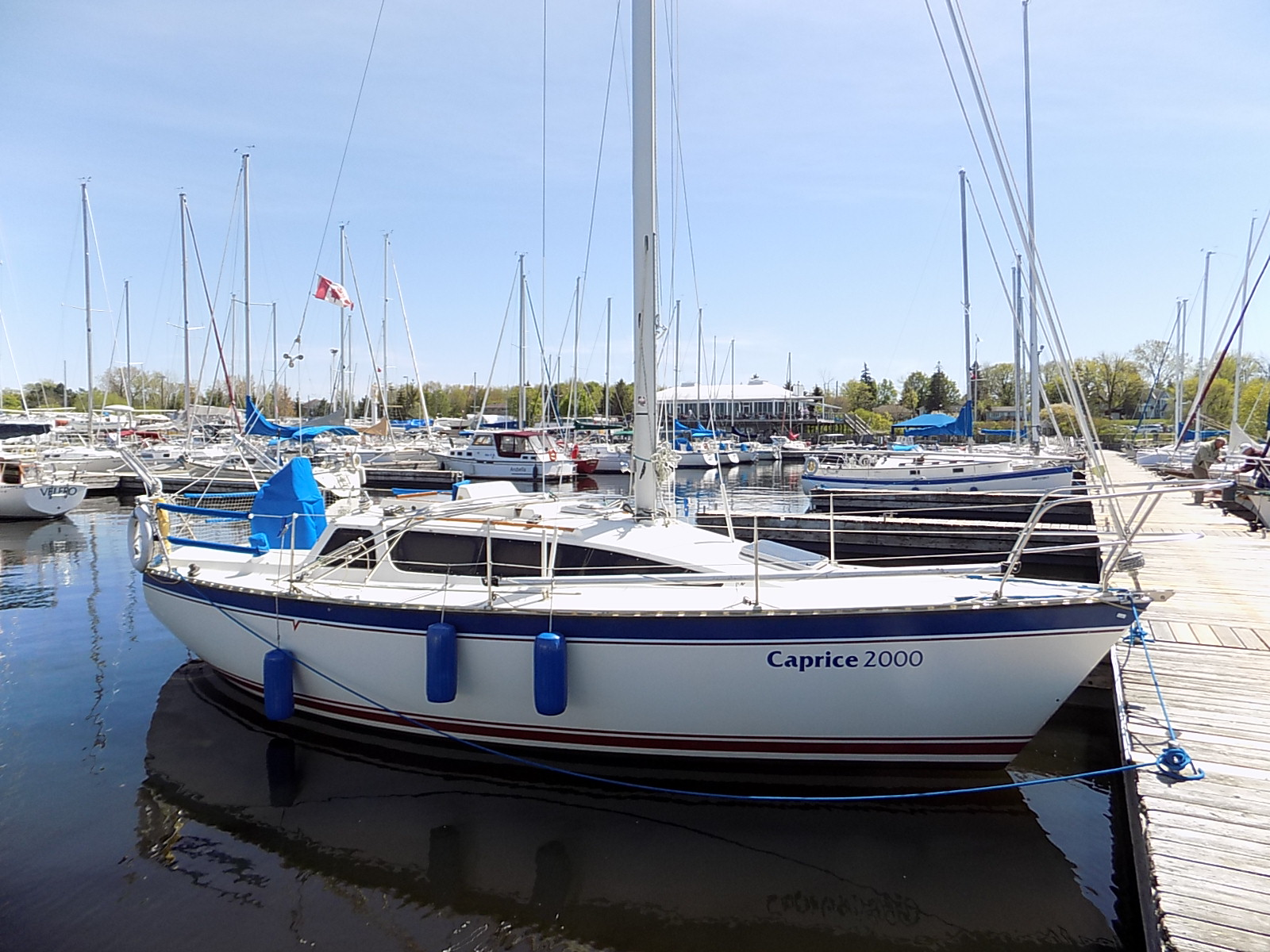 A Tanzer 29 sailboat named Caprice 2000.